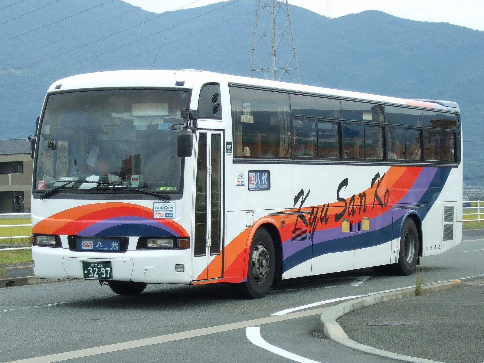 The original ``B&S Miyazaki No.``private car 元「B&Sみやざき号」専用車